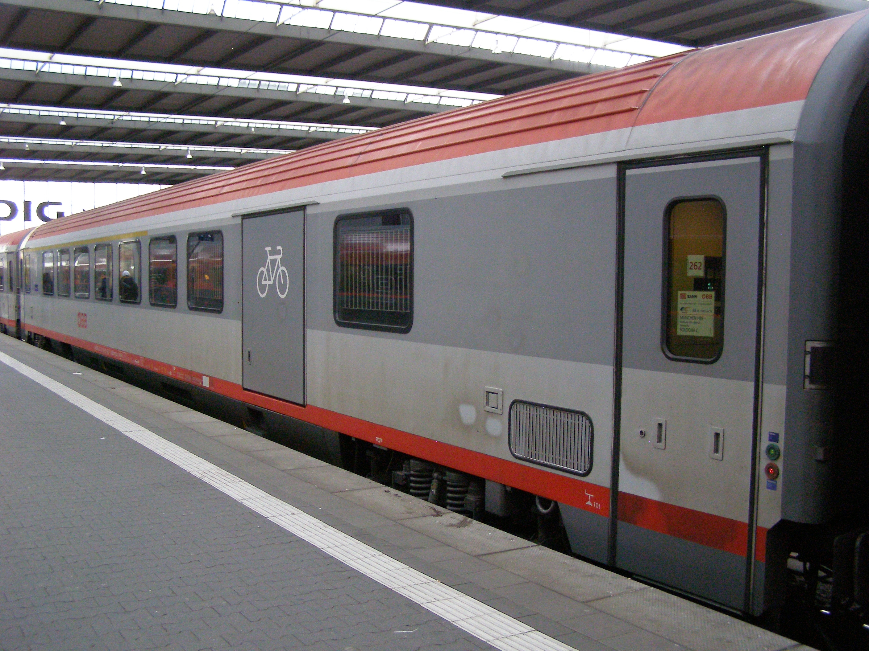 München Hbf. station - passenger and bicycle coach of EC 85 train to Bologna (ADbmpsz 73 81 81-91 007-1)